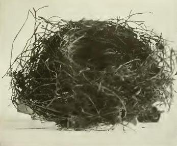 Old photo of a nest from The Animals of New Zealand An account of the Dominion's Air-breathing vertebrates (1909) By Captain F. W. HUTTON, F.E.S. AND JAMES DRUMMOND, F.L.S., F.Z.S. From image: Nest of Chatham Island Bell-bird